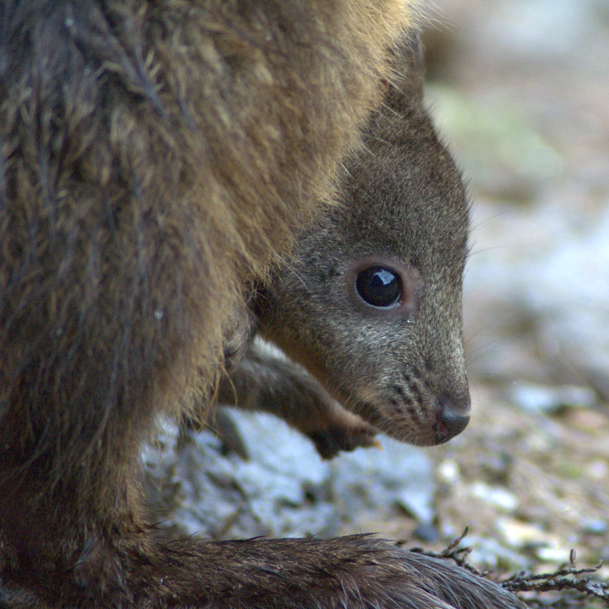 Tasmanian pademelon joey looking out mother's pouch. Photographed in December 2005. The original in Nikon's "raw" format is available under a different license. PanBK 20:55, 29 March 2006 (UTC)